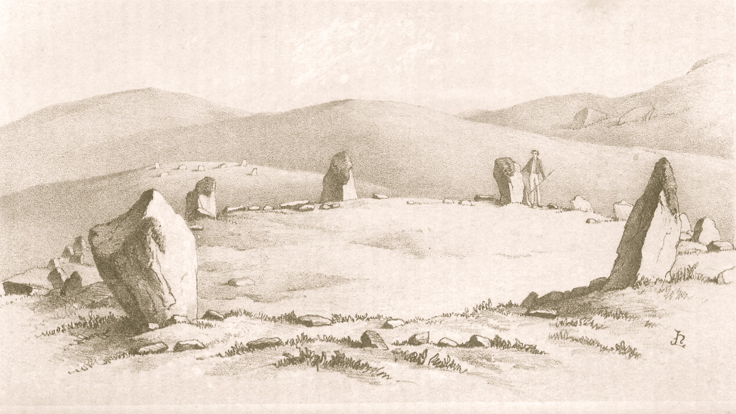 Dwygyfylchi Stone Circle, Conway. Soft ground etching by Harry Longueville Jones. Archaeologia Cambrensis 1846, pg70